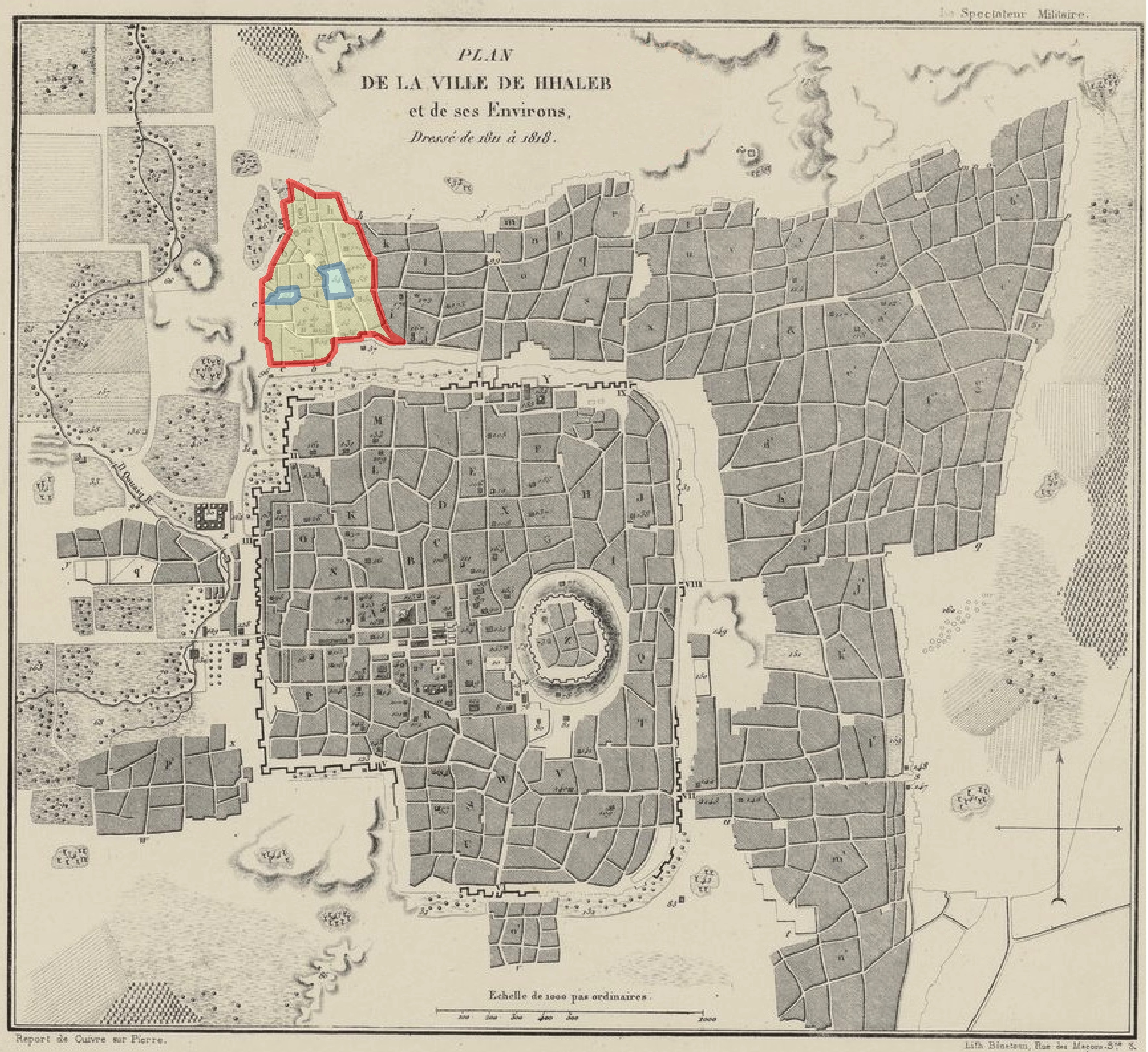 Plan of the city of Aleppo and its surroundings 1811-1818. Approximate location of Jdeideh highlighted in red. Sahat Farhat (west) Sahat Al Hatab (east) [squares] highlighted in blue.